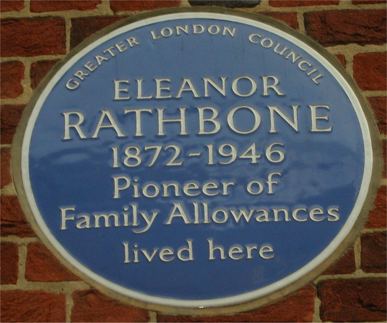 Blue plaque on Eleanor Rathbone's house in Tufton Street, Westminster, London. Photographed by me 24 February 2007. Oosoom